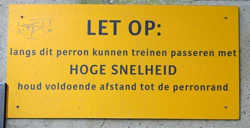 Warning sign about passing high-speed trains at Nieuw-Vennep station.